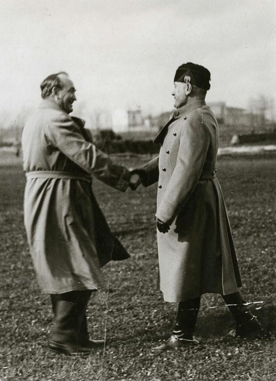 Gömbös y Mussolini, 1936.